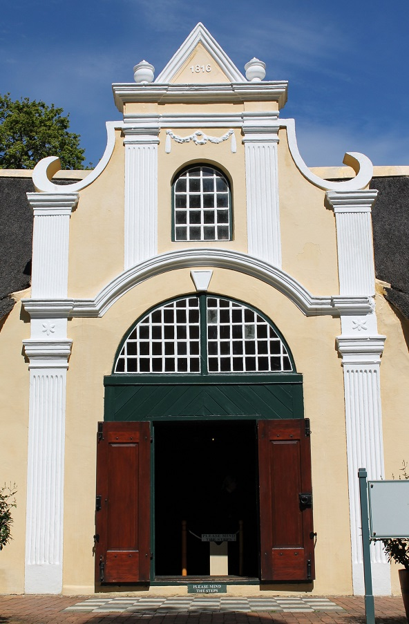 The Vergelegen Estate is home to one of South Africa's oldest collection of books, journals and diaries which is housed in the exquisite library on the estate. Originally designed and built as a wine cellar, the cellar was converted in to a stately library during the Phillips era. Lady Florence Phillips was married to Sir Lionel Phillips and under her direction, she transformed the dilapidated estate in to a wondrous haven. She was also a literary, art and culture fan and the collection of books housed in the library attest to this reality. The collection of works in the library features some 4500 books and is home to rare travel books, and even Simon Van Der Stel's personal diary. This media shows a South African Protected Site with SAHRA file reference NEW.